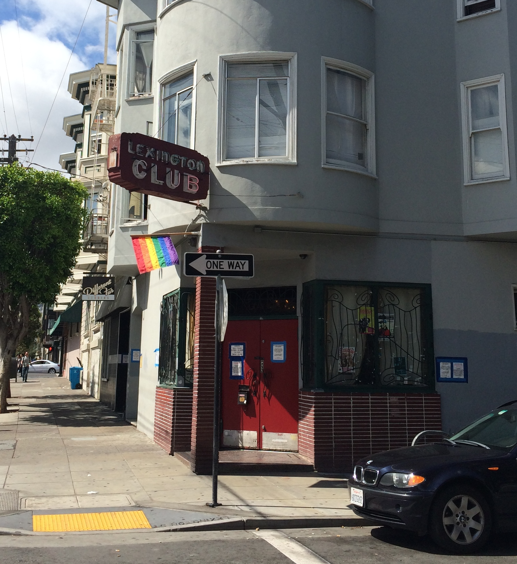 The Lexington Club, lesbian bar in the Mission District in San Francisco, at 3464 19th Street.